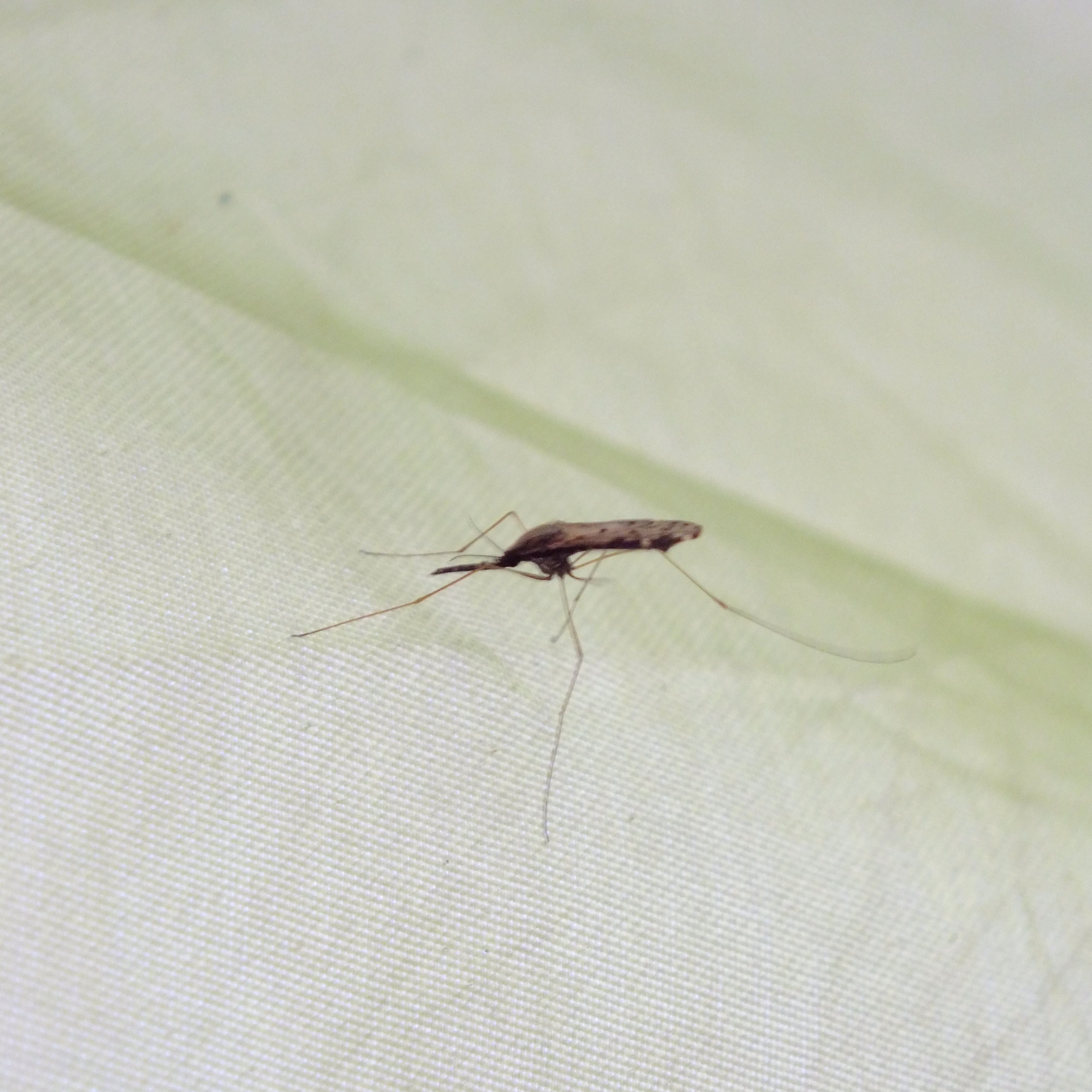 Anopheles